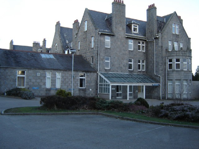 Tor-Na-Dee Hospital. This is the entrance to the hospital. Tor-Na-Dee hospital is now closed